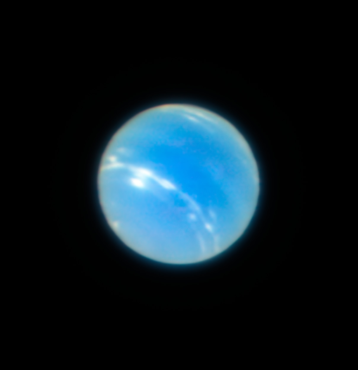 This image of the planet Neptune was obtained during the testing of the Narrow-Field adaptive optics mode of the MUSE/GALACSI instrument on ESO’s Very Large Telescope. The corrected image is sharper than a comparable image from the NASA/ESA Hubble Space Telescope.